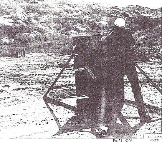 A worker at the Santa Susana field laboratory disposes of barrels filled with sodium by shooting them and causing them to explode. It is unclear how this was done since sodium is not an impact explosive and generally requires a water source to do so.